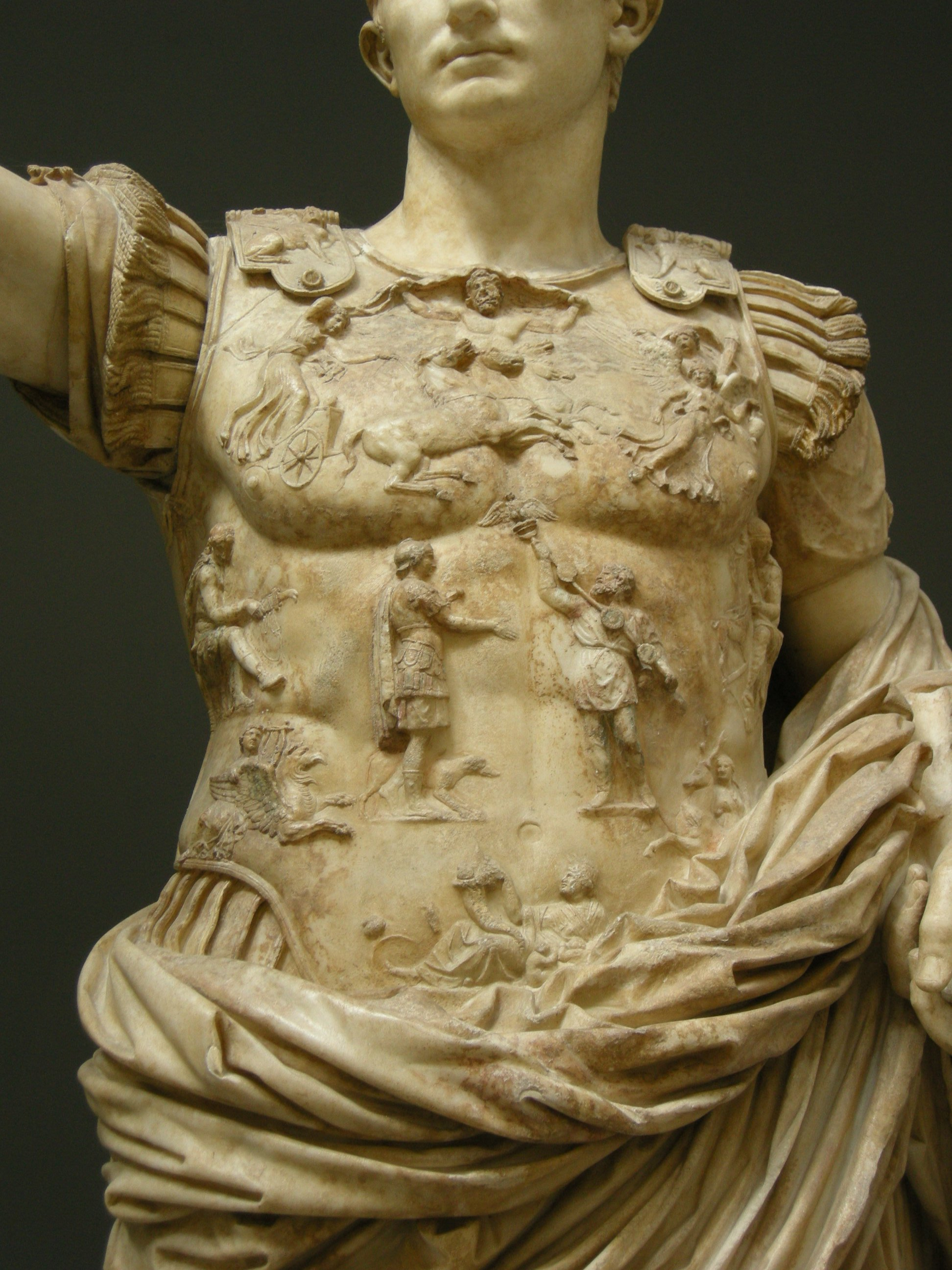 Torso of the Augustus of Prima Porta statue, now in the Bracchio Nuovo of the Vatican Museums, Rome.